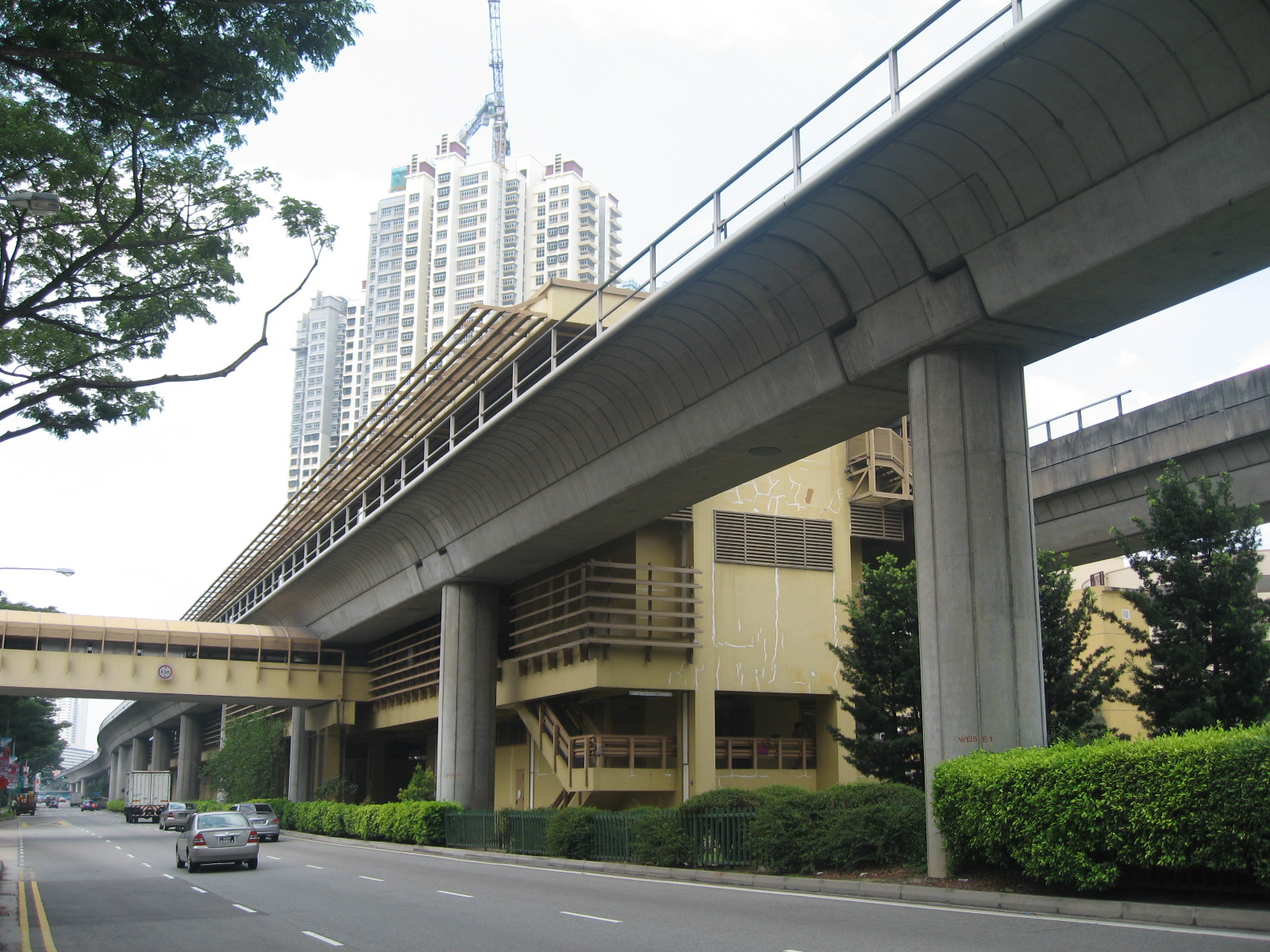 Commonwealth MRT Station.